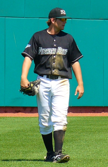 Adam Lind playing outfield for the New Hampshire Fisher Cats. 01:16, 19 July 2007 . . Metsfan7 . . 455×700 (269 KB)